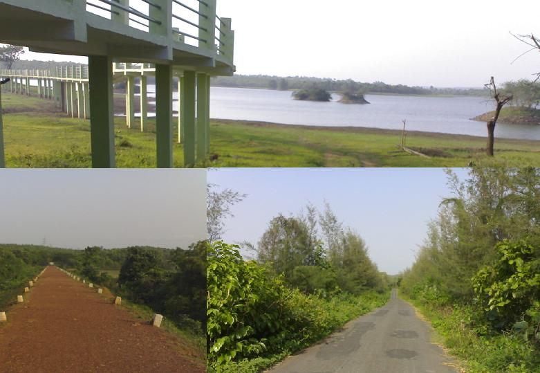 Attiveri Bird sanctuary near Mundgod, Mundgod in Uttara Kannada district in Karnataka, India